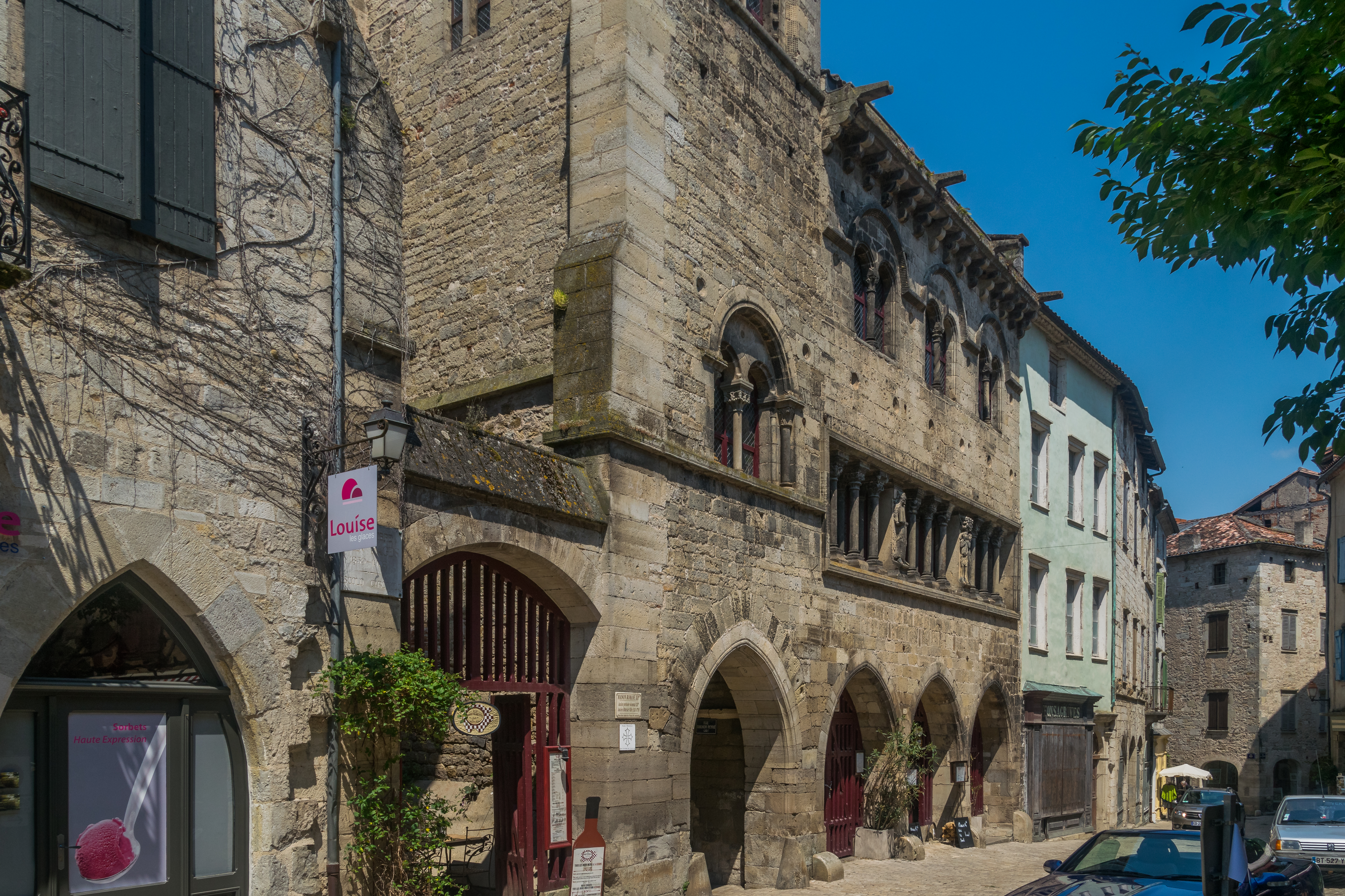 Former town hall of Saint-Antonin-Noble-Val, Tarn-et-Garonne, France